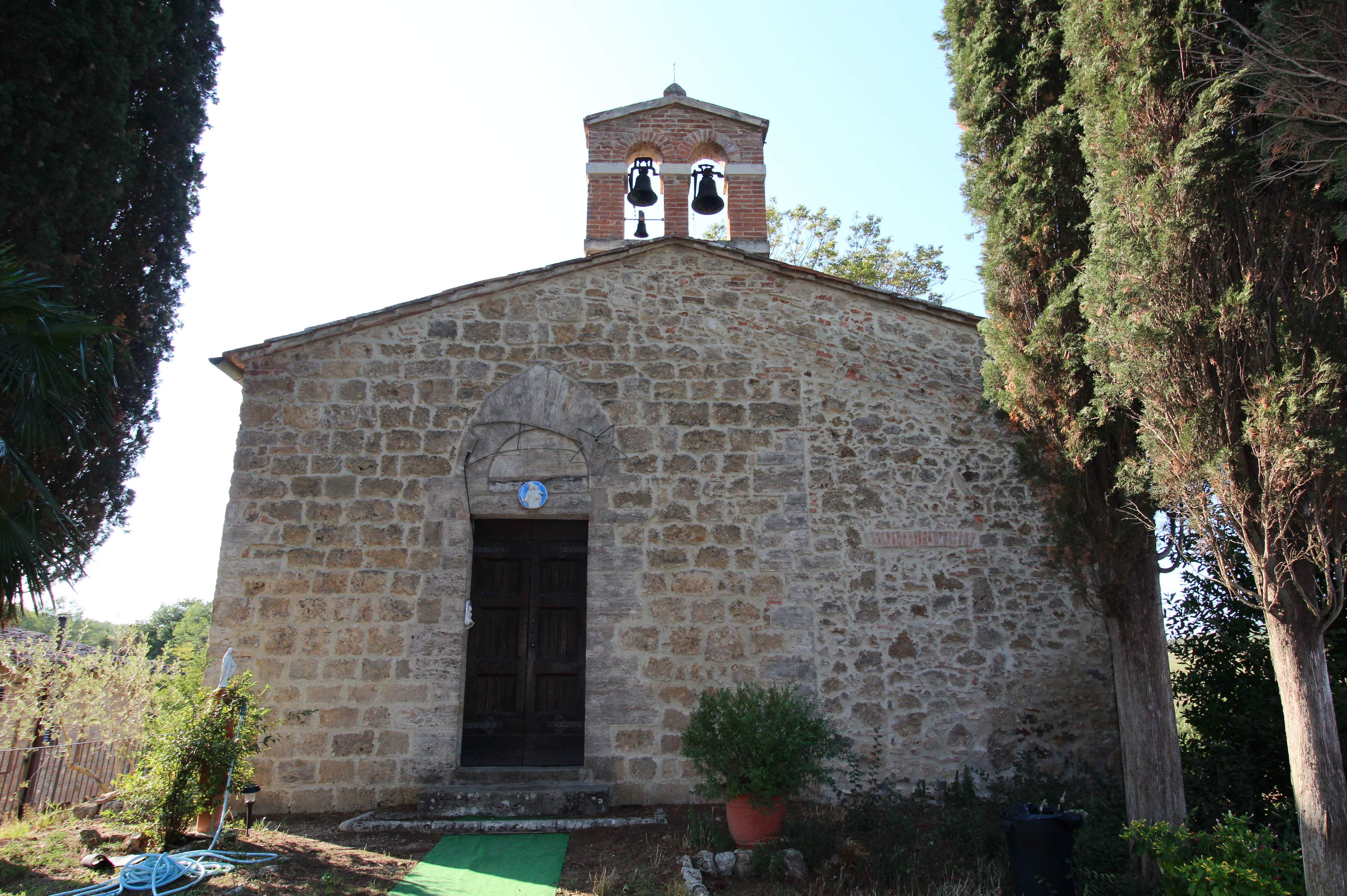 Church Santa Maria Maddalena a Castiglioni (Castiglioni Alto), territory of Poggibonsi, Province of Siena, Tuscany, Italy